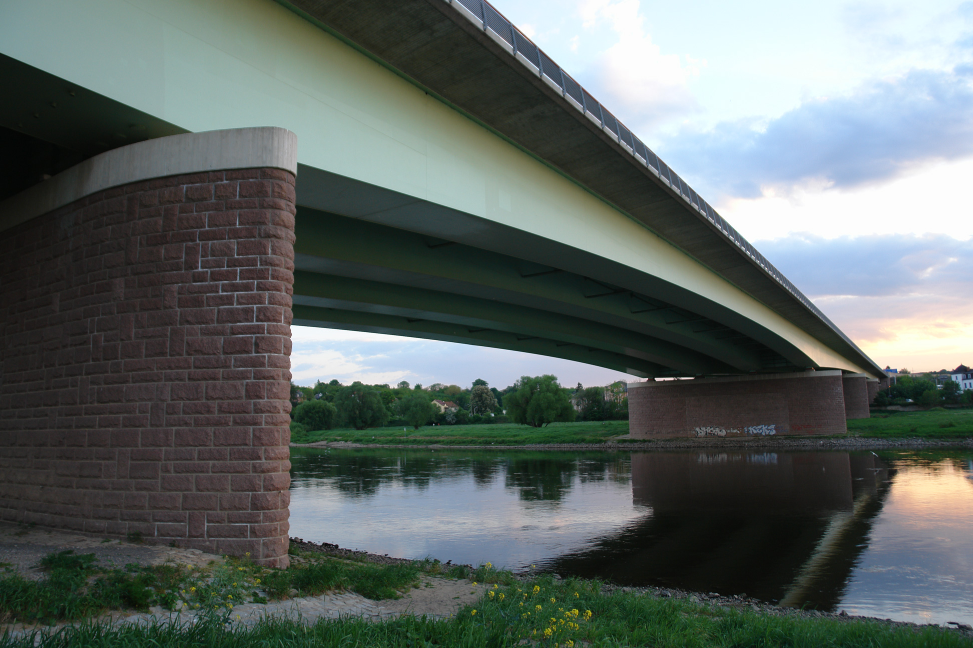 Highway Brigde over River Elbe near Dresden